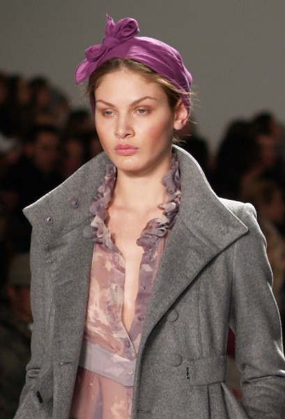 Viktoria Sekrier modeling in Michon Schur Fall 2007 show, New York Fashion Week.